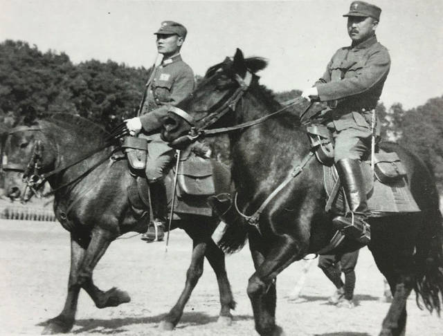 General Wei Lihuang on horseback